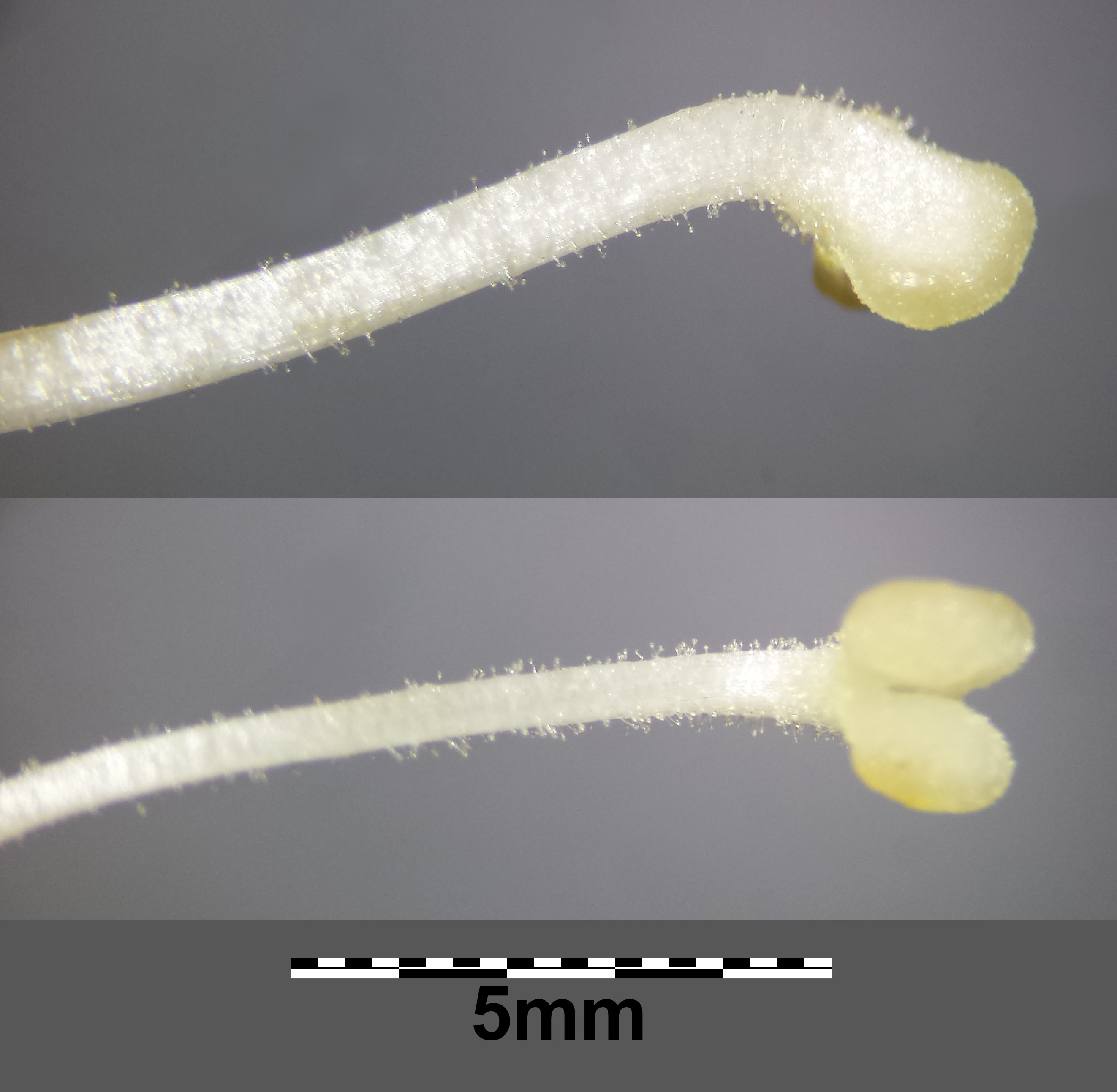 Stylus and stigma Taxonym: Phelipanche purpurea ss Fischer et al. EfÖLS 2008 ISBN 978-3-85474-187-9 Location: between Putzing and Manhartsbrunn, district Mistelbach, Lower Austria - ca. 230 m a.s.l. Habitat: meadows